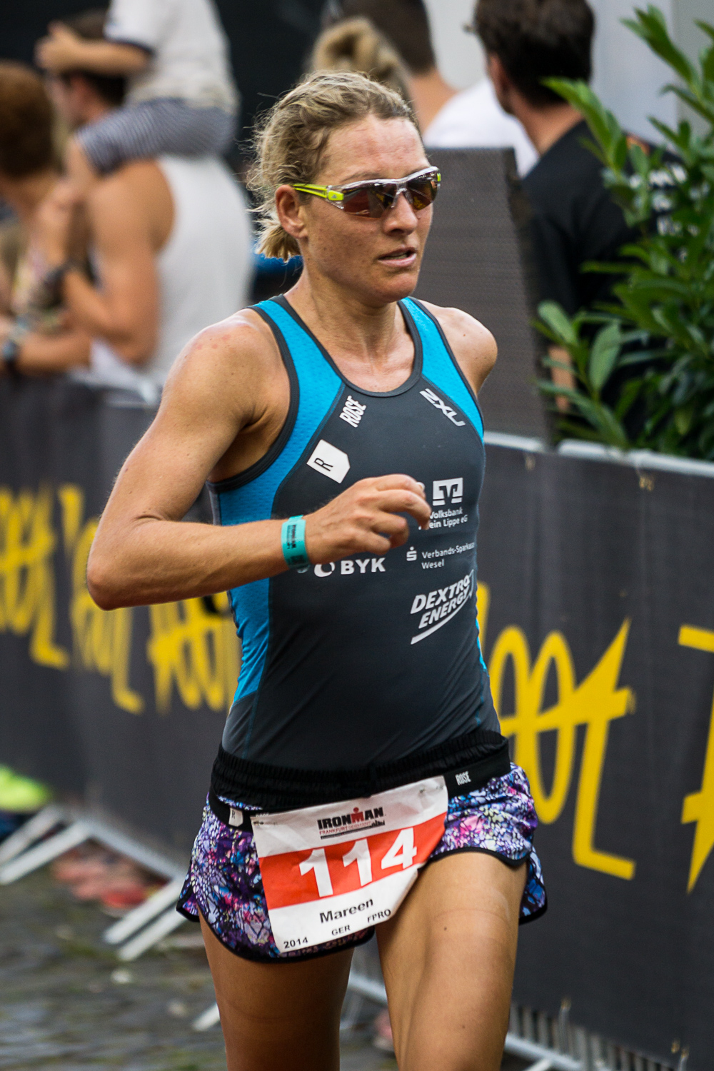 Mareen Hufe at the 2014 Ironman European Championship in Frankfurt am Main.